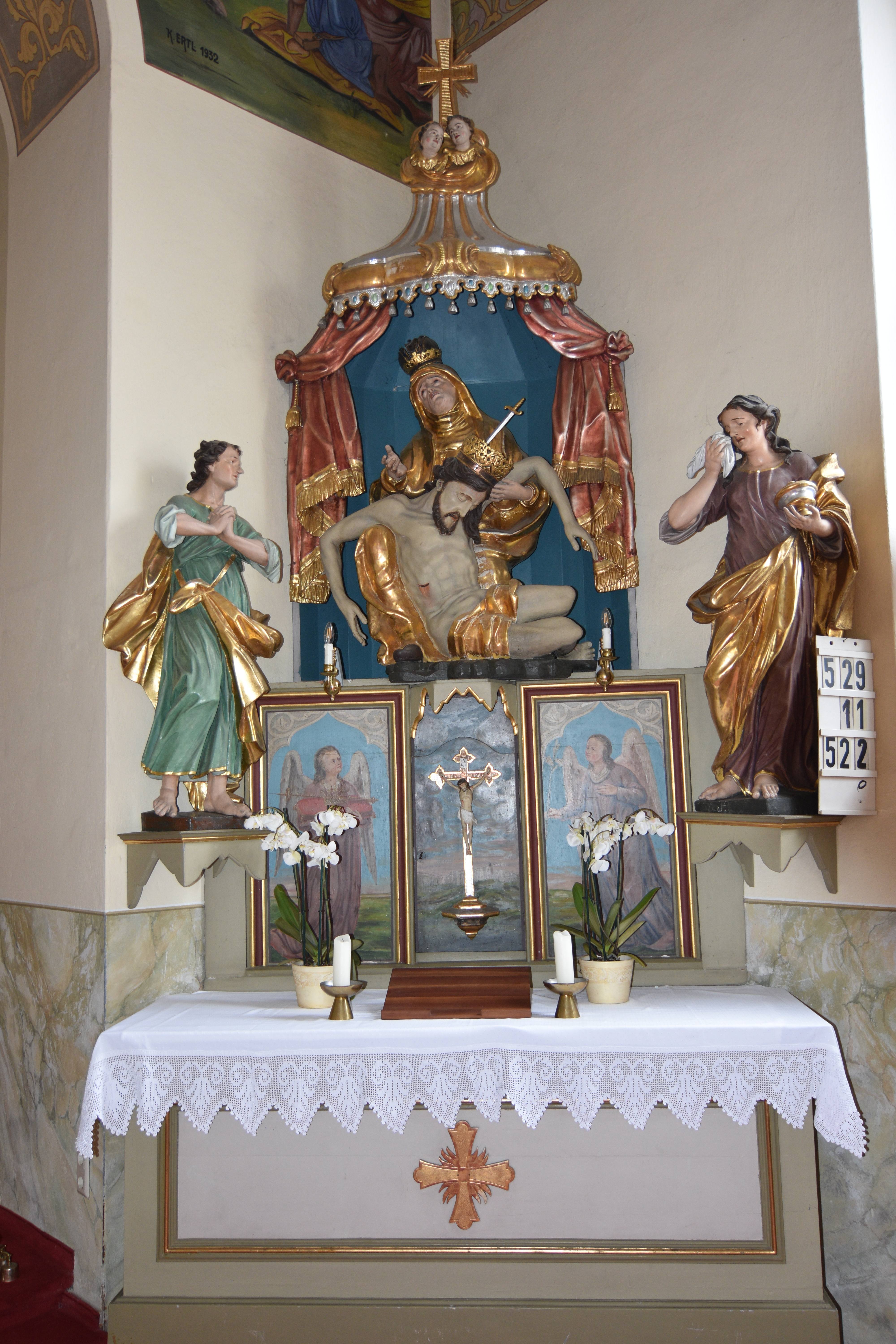 Church Deutsch Kaltenbrunn - Interior